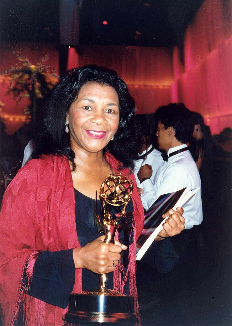 Actress Mary Alice, Photo taken at the 45th Emmy Awards - Governor's Ball